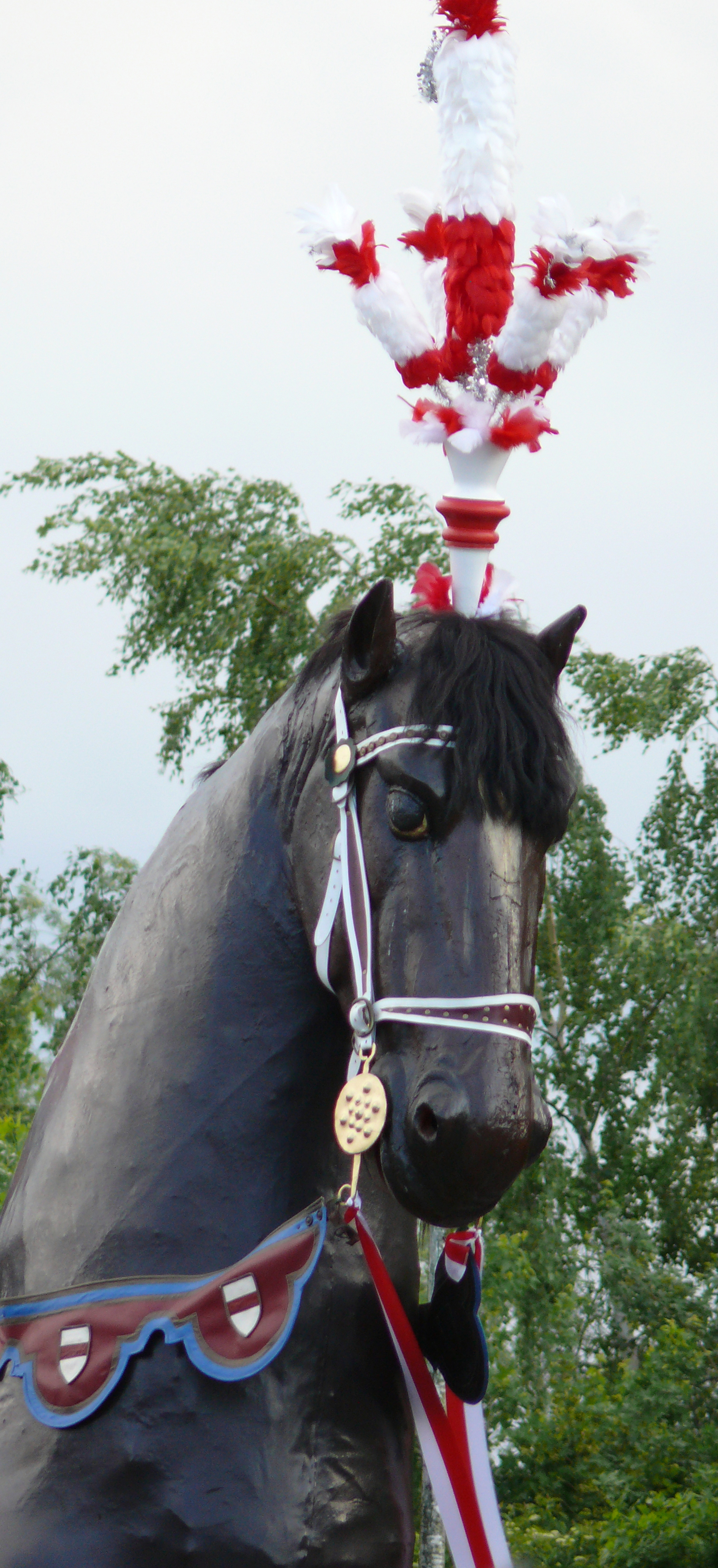 The magnificent head of Ros Beiaard(Steed Bayard), presumably carved in 1754, but possibly dating back to the 15th century. According to lore the head was carved by the artist Lieven van de Velde.